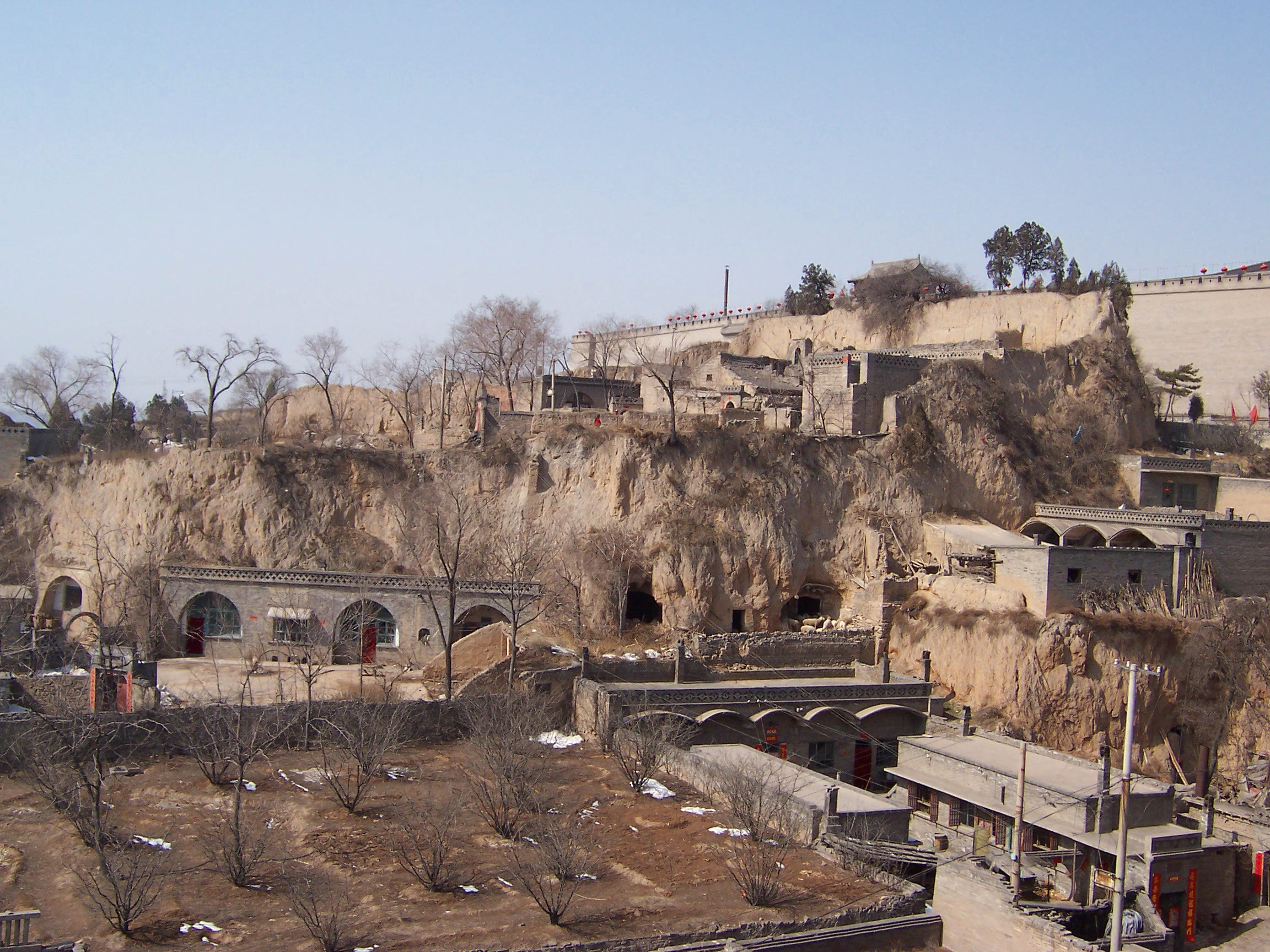 Traditional cave houses in Lingshi County, Province Shanxi, China. In the background, a part of the walls of the Chongningbu complex, which belongs to the Wang Family Grand Courtyard (王家大院).